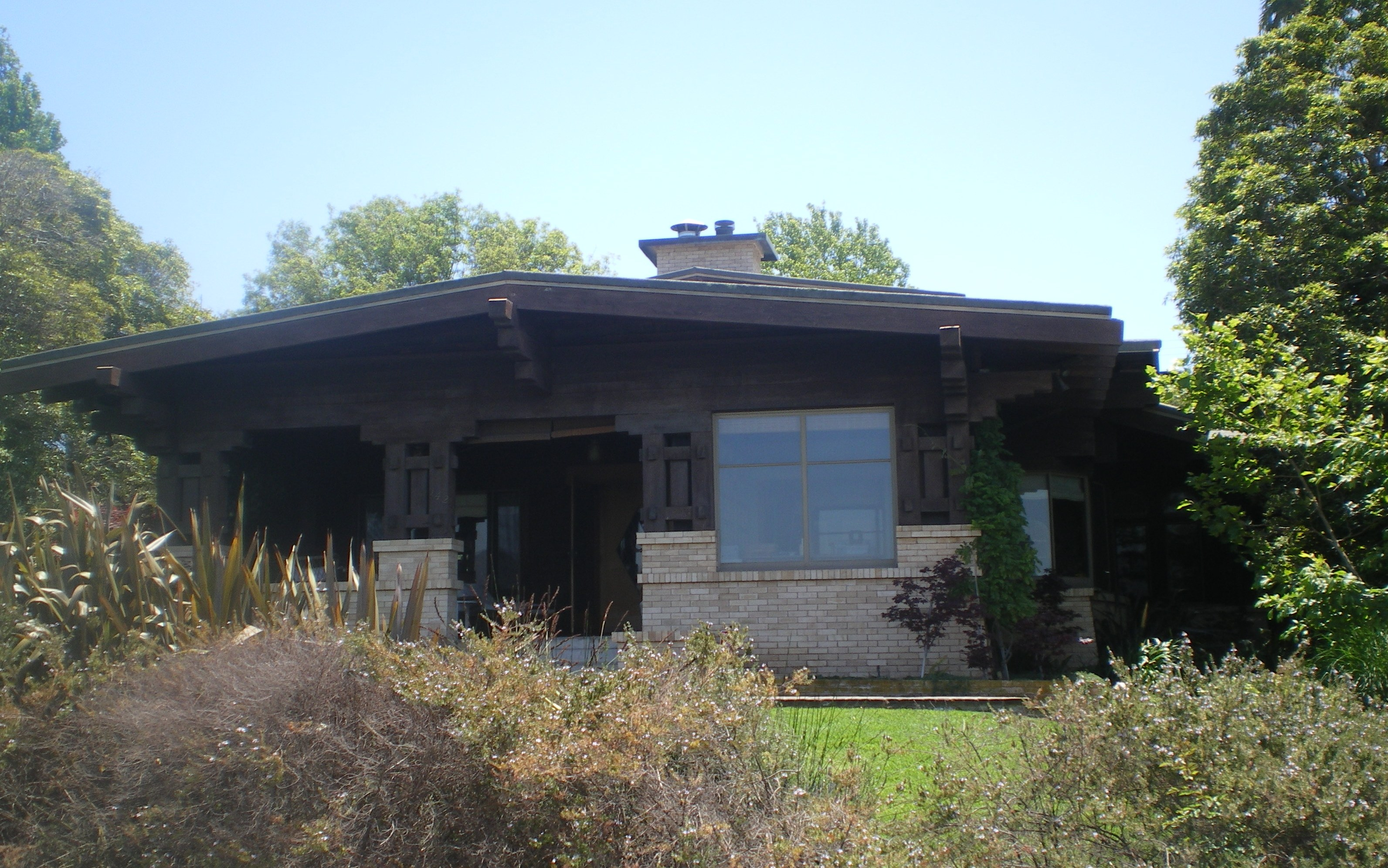 Henry Weaver House, 142 Adelaide Dr., Santa Monica, California